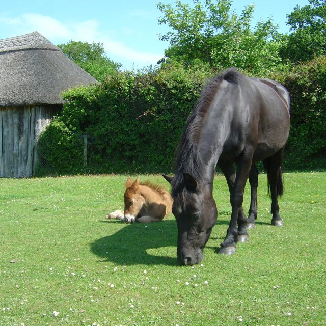 Woodgreen residents.